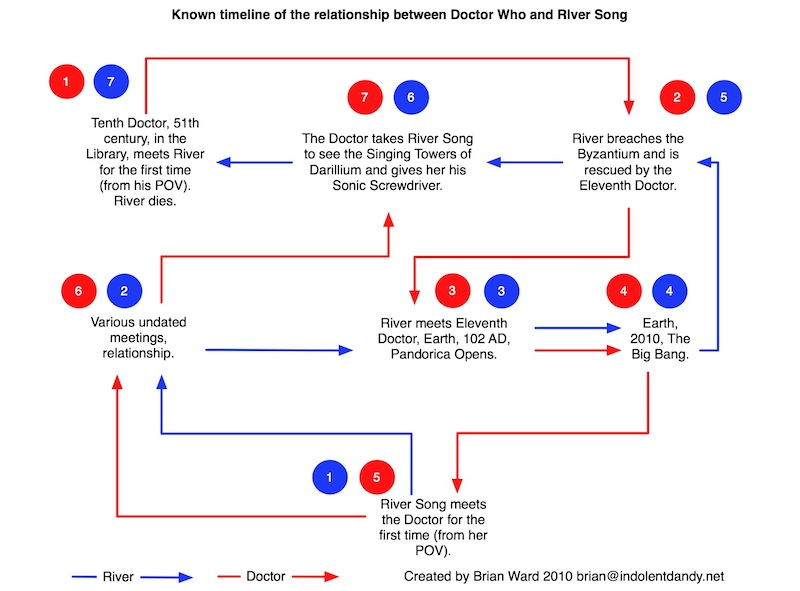 Known timeline of the relationship between Doctor Who and RIver Song